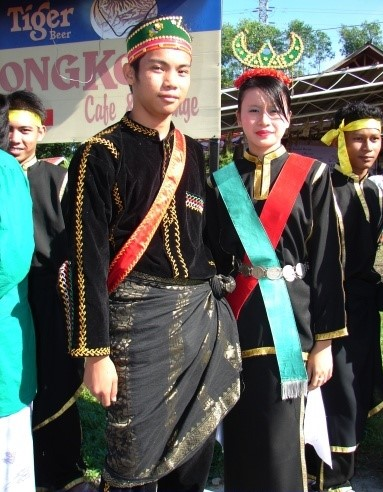 Bisaya Tradisional Costume